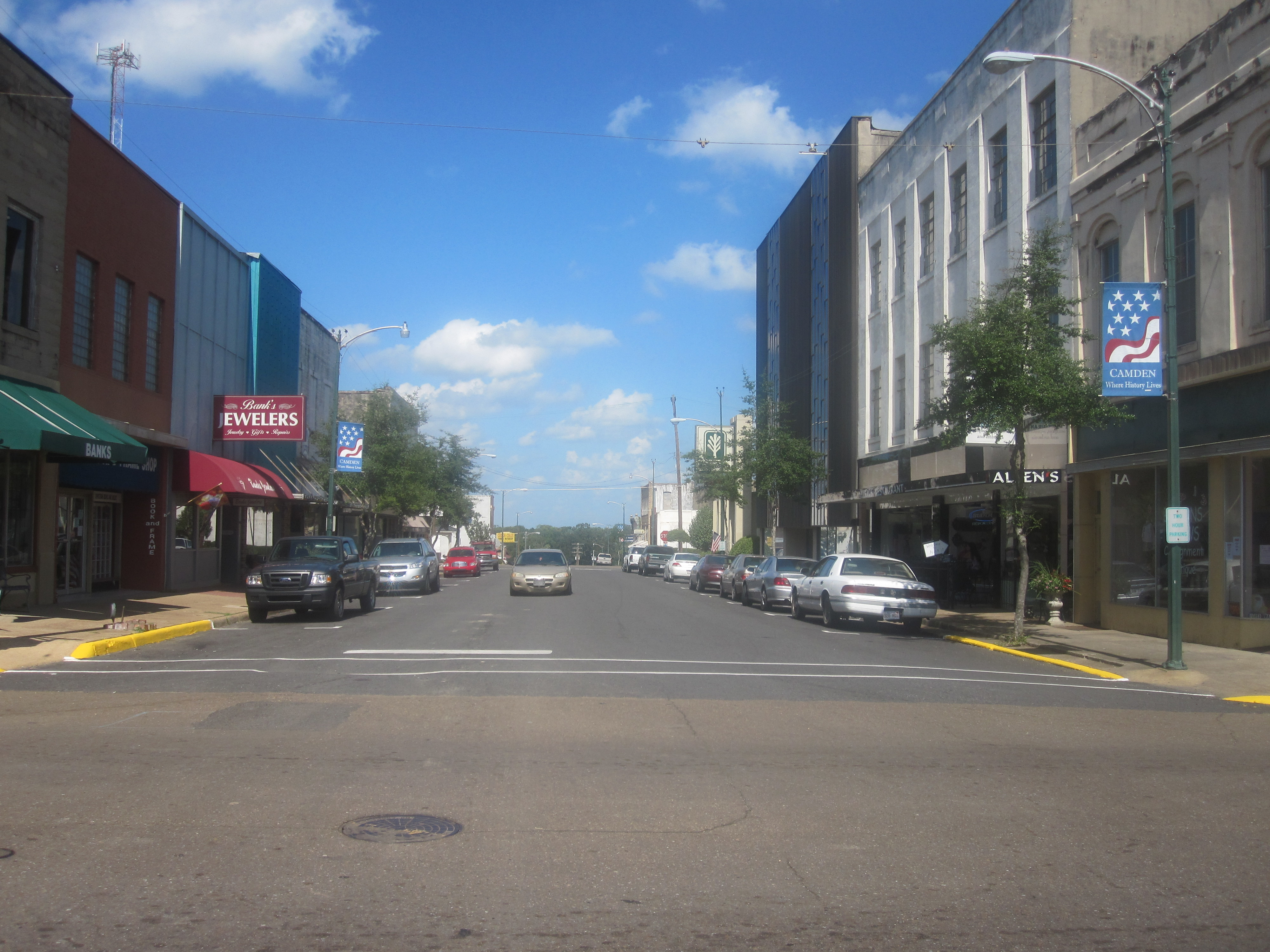 Downtown Camden, AR